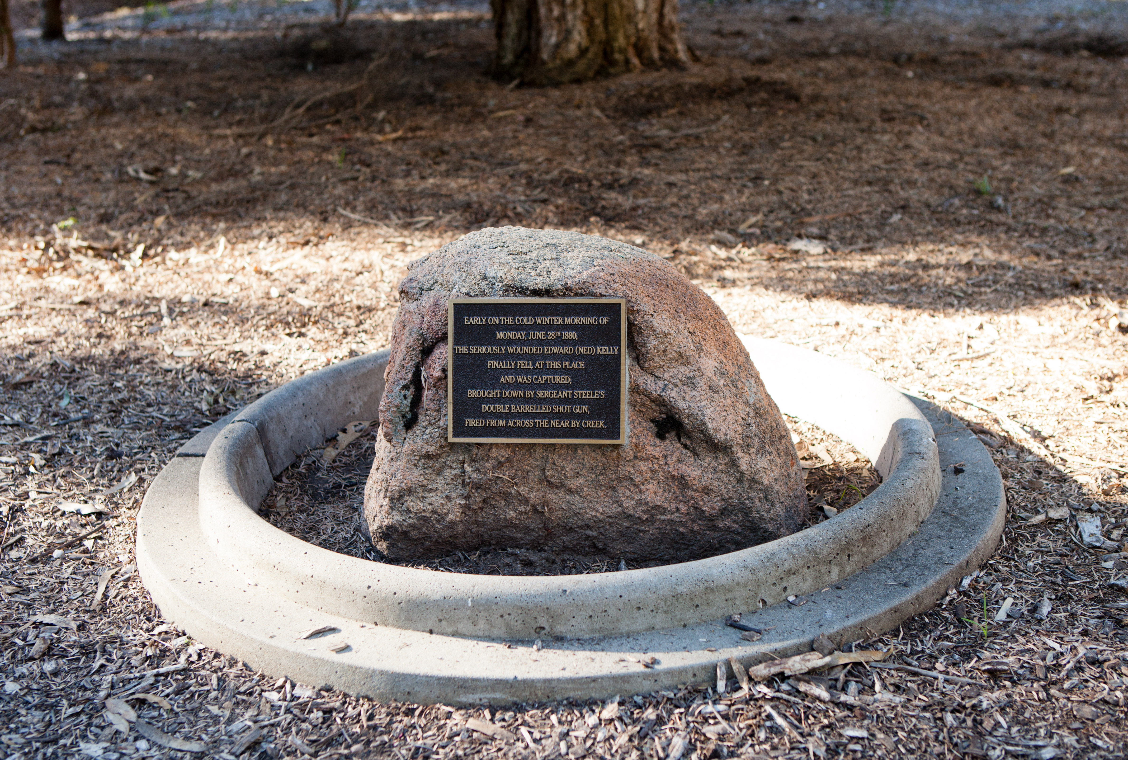 Capture monument of Ned Kelly, Glenrowan